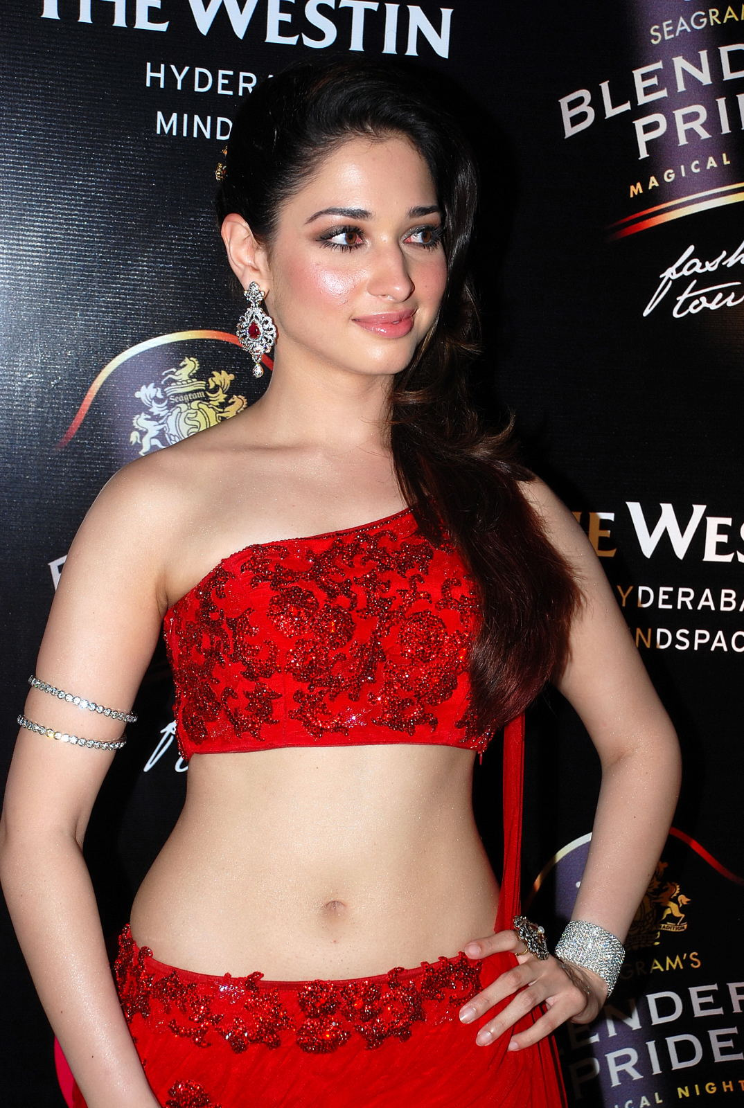 Tamannaah at Blender's pride fashion show in Hyderabad, 2011.